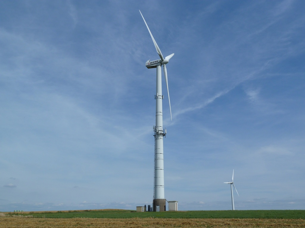 Micon M1500-600 wind turbine in the wind farm on the Maienberg near Crainfeld, Hesse, Germany.